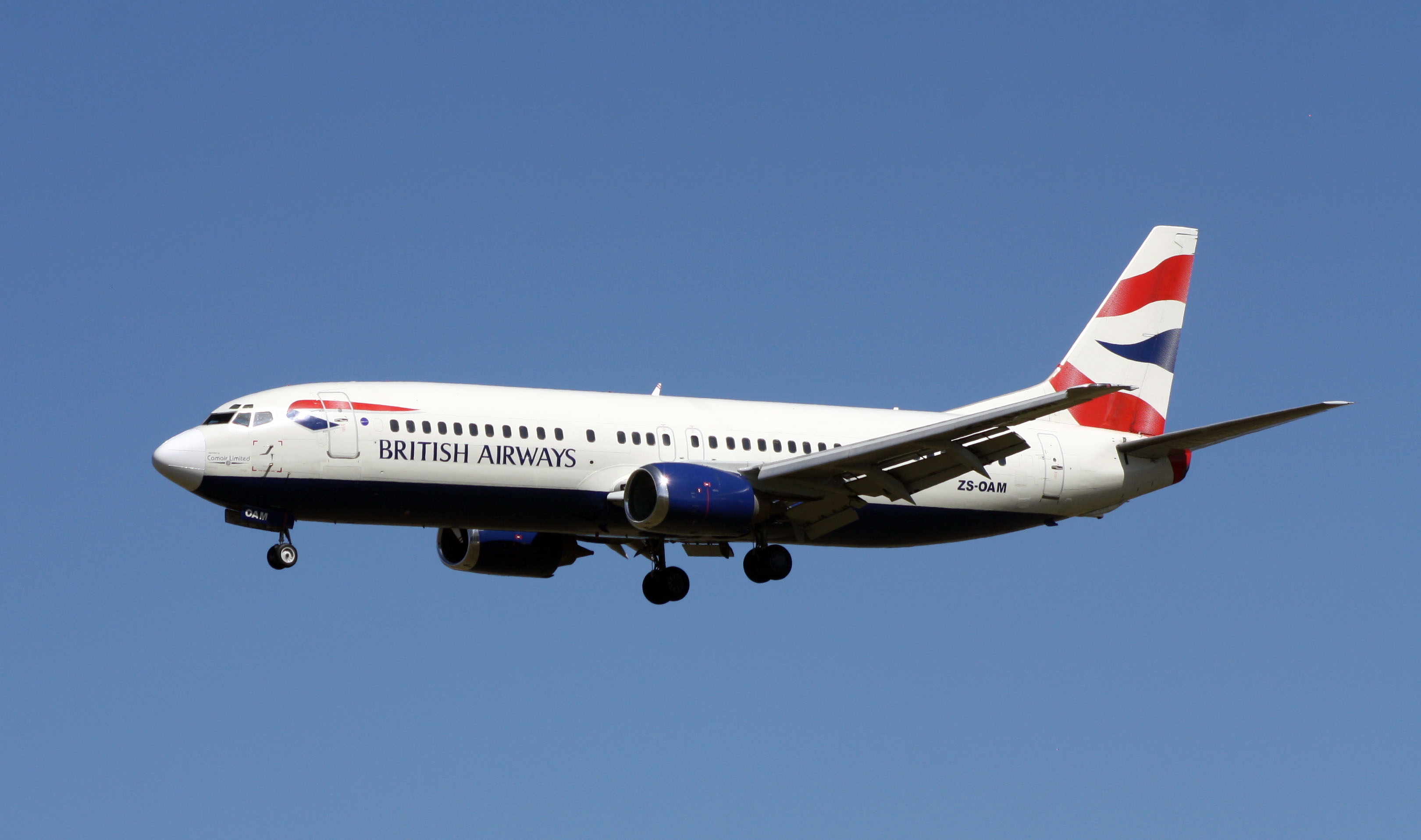 BA (Comair) B737-4S3 ZS-OAM